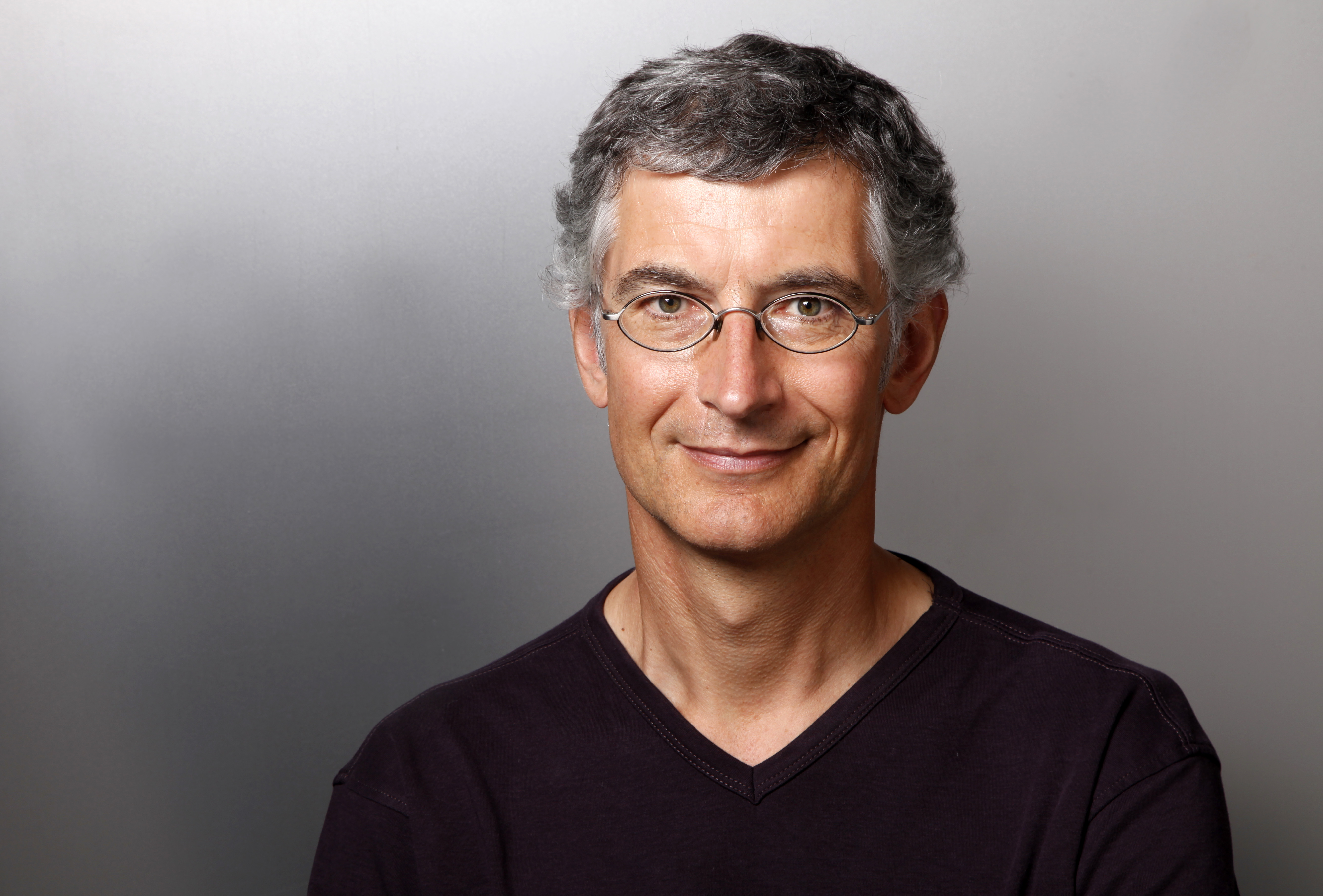 German author and journalist Johannes Schweikle